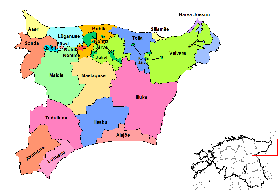 Map of the municipalities of Ida-Viru county in Estonia. Created by Rarelibra 17:32, 22 December 2006 (UTC) for public domain use, using MapInfo Professional v8.5 and various mapping resources.